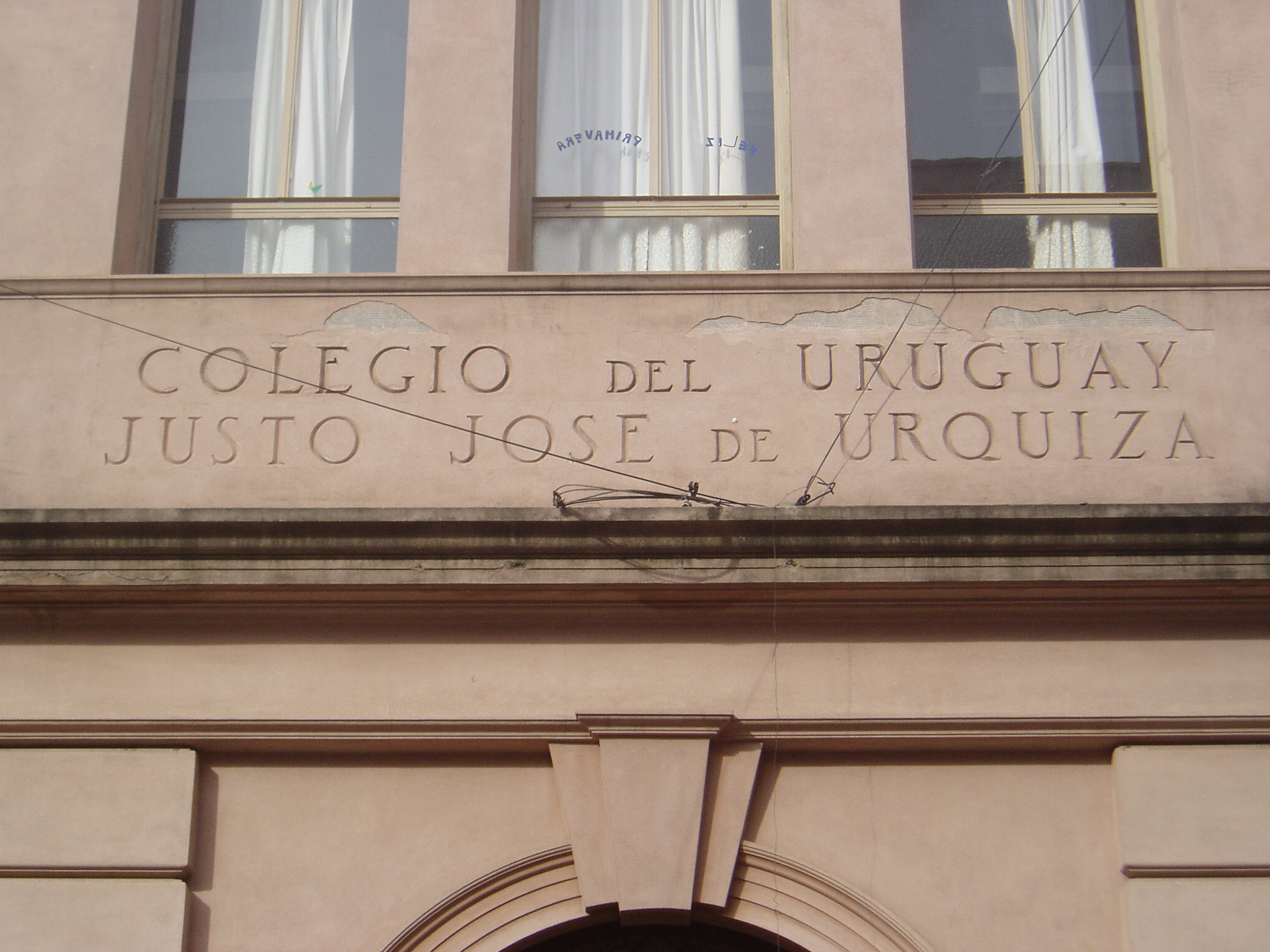 Uruguay's School in Concepción del Uruguay